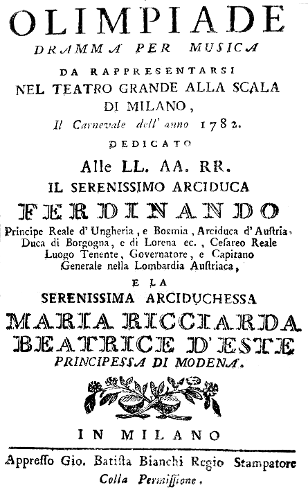 Francesco Bianchi - Olimpiade - titlepage of the libretto - Mailand 1781